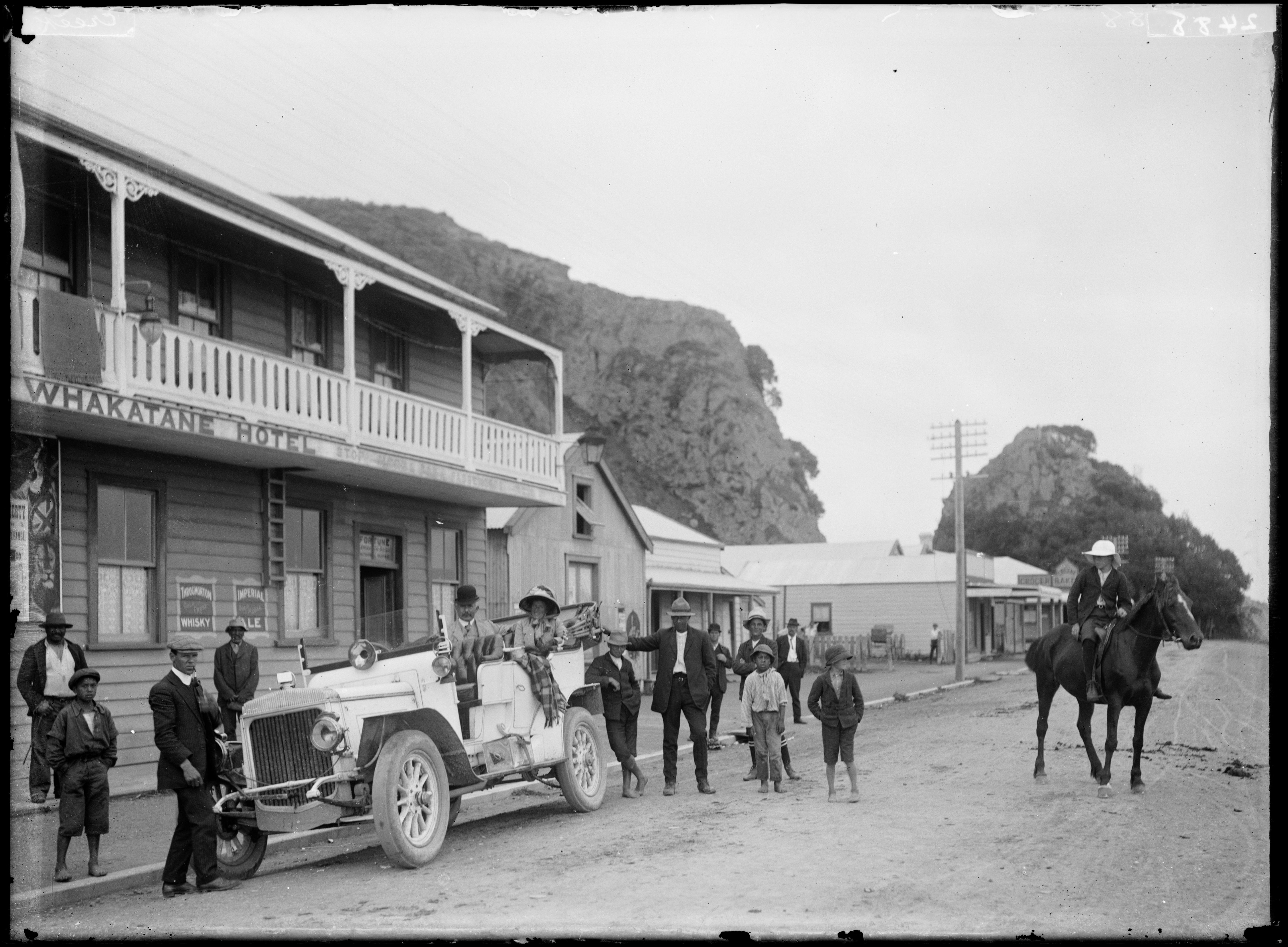 Whakatane Hotel with rocky ciffs behind, photographed by William Archer Price circa 1910s. Looks along a street with the Whakatane Hotel on the left. A touring car with a man and a woman as passengers in the back seat, with a group of people standing around, and a young man on horseback, watching from the middle of the road. Quantity: 1 b&w original negative(s). Physical Description: Dry plate glass negative Whakatane township. Price, William Archer, 1866-1948 :Collection of post card negatives. Ref: 1/2-001777-G. Alexander Turnbull Library, Wellington, New Zealand.